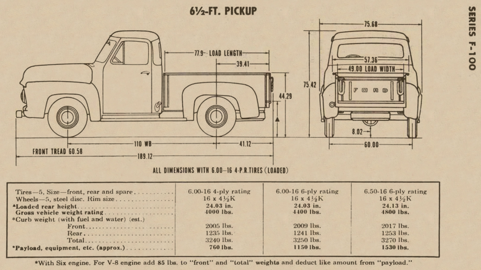 1953 F100 Diagram